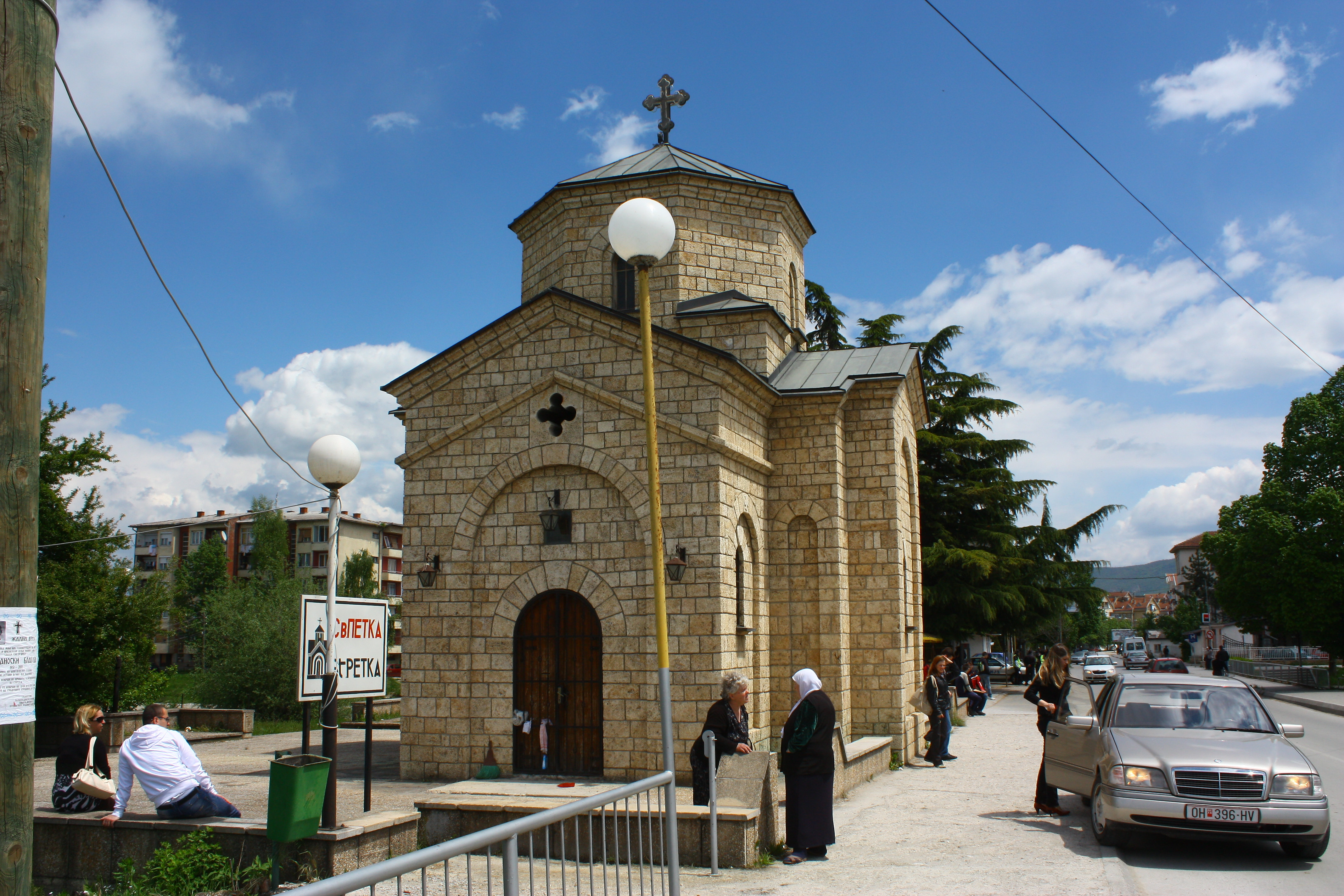 St. Petka Church in Struga, Macedonia